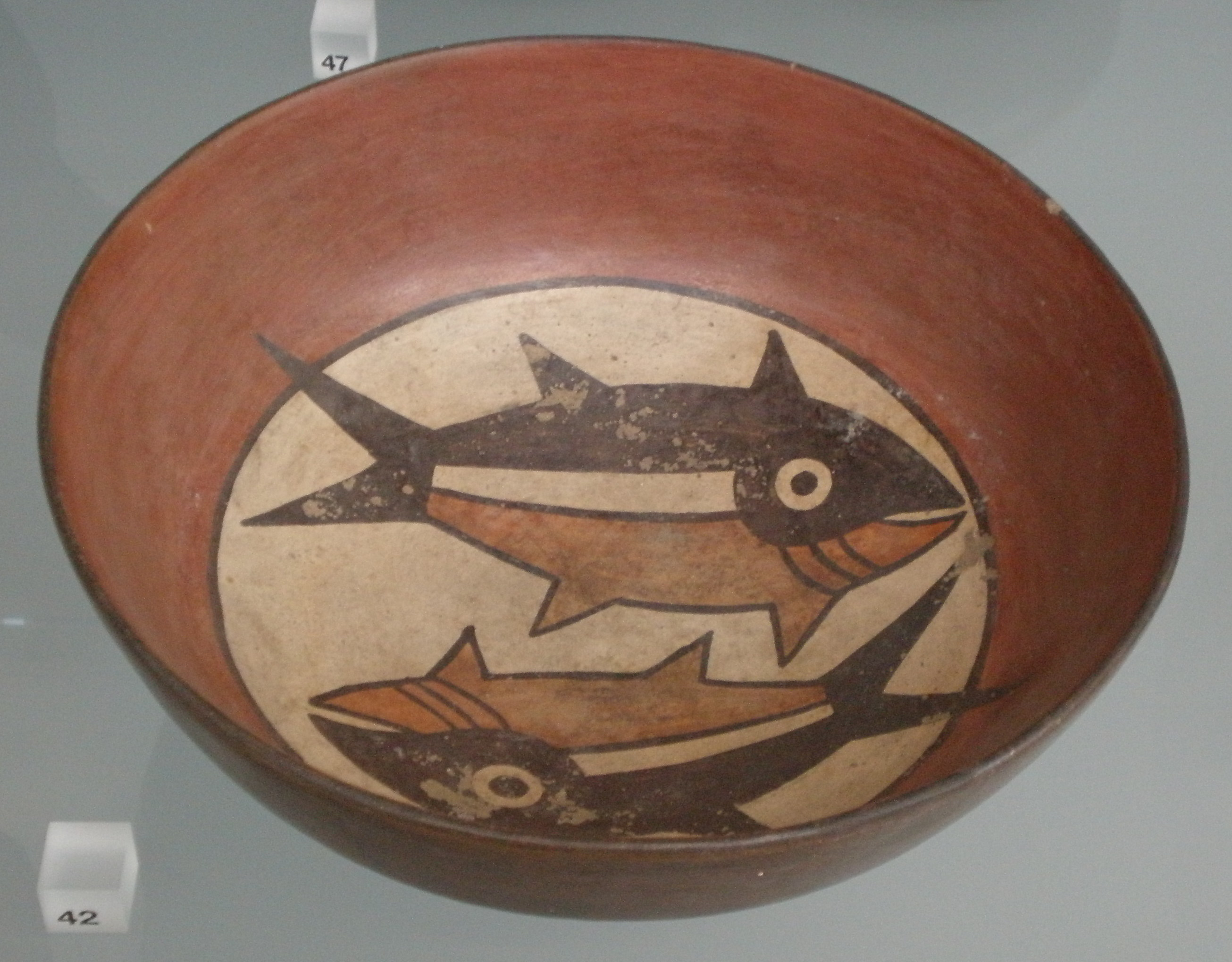 Bowl with fish and cup with warrior's head Peru, Nasca culture 300-600 Collection ID: C.17-1941 This photo was taken as part of Britain Loves Wikipedia in February 2010 by David Jackson.